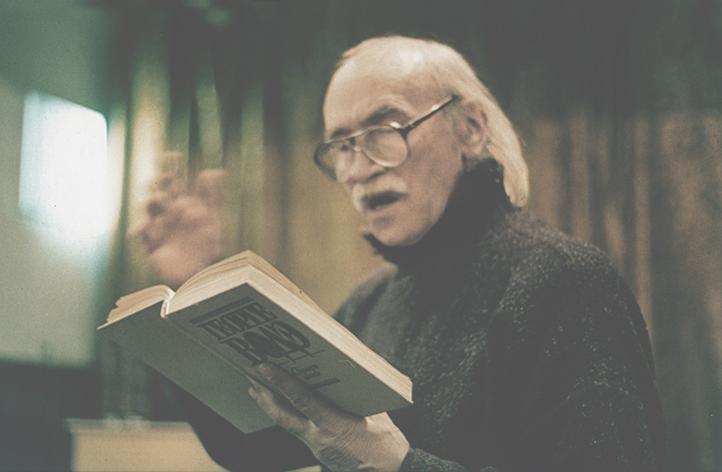 "Recite, Gheorghe Voda!".